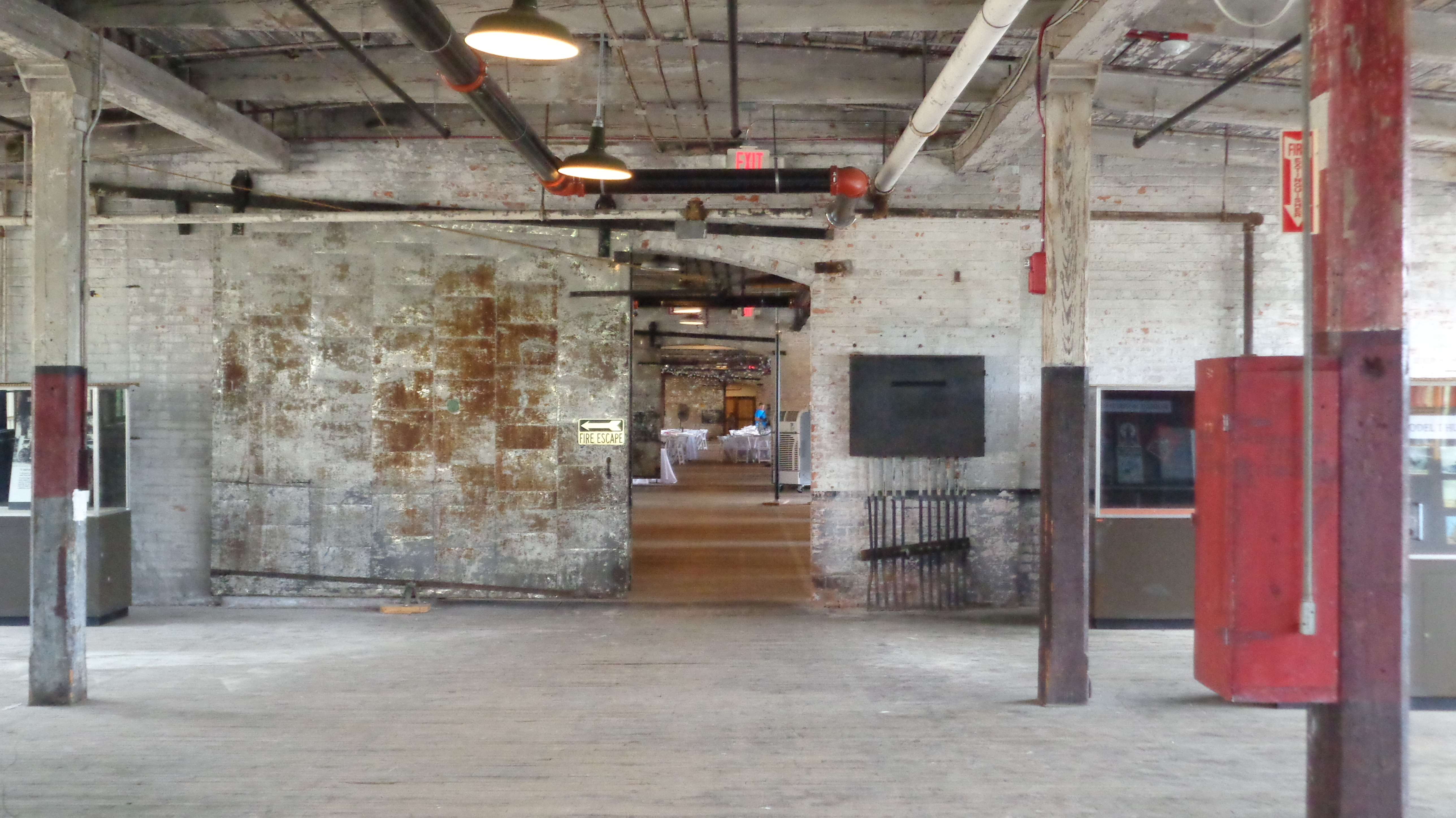 Part of the third floor of the Ford Piquette Avenue Plant.